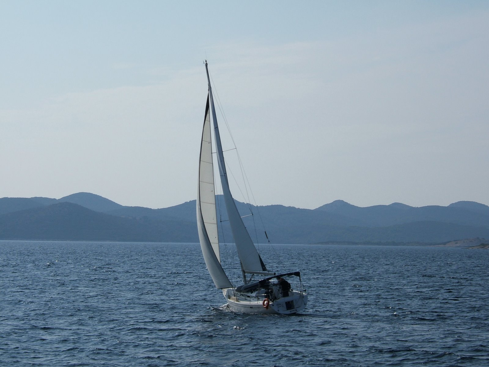 Sailboat in the Srednji kanal, Croatia.